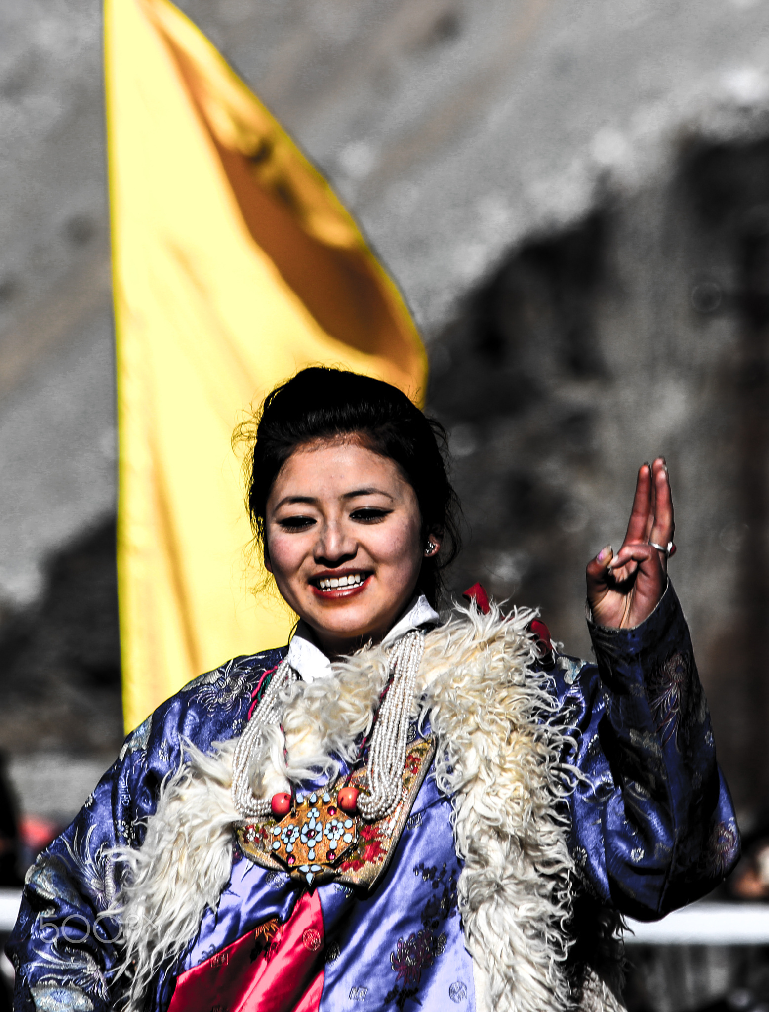 buddhist girl dancing on folk song at kargil